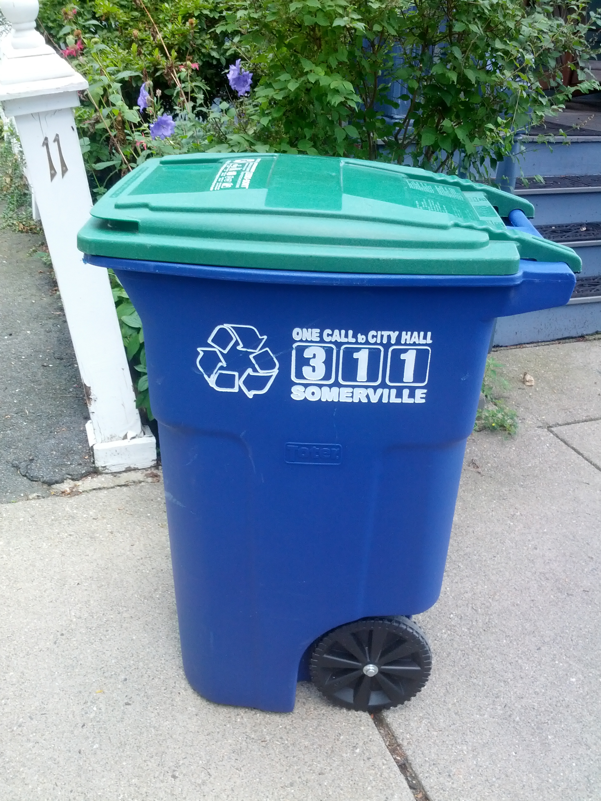 Residential recycling bin for Somerville, MA